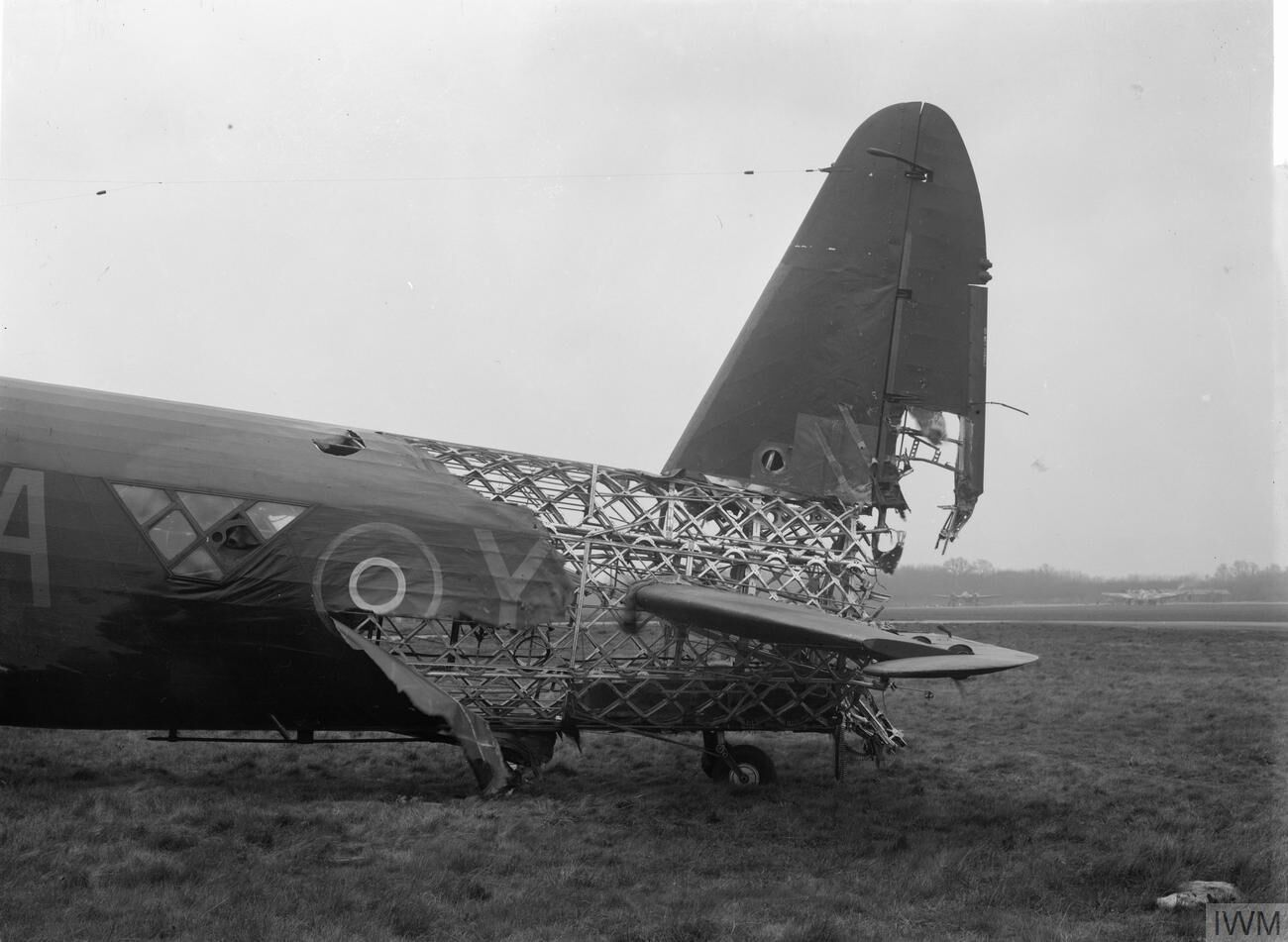 A damaged Vickers Wellington Mark X (s/n HE239, "NA-Y") of No. 428 Squadron RCAF in April 1943. Original description: "Damage to Vickers Wellington Mark X, HE239 'NA-Y', of No. 428 Squadron RCAF based at Dalton, Yorkshire, resulting from a direct hit from anti-aircraft gun fire while approaching to bomb Duisburg, Germany on the night of 8/9 April 1943. Despite the loss of the rear turret and its gunner, as well as other extensive damage, the pilot, Sergeant L F Williamson, continued to bomb the target, following which it was found that the bomb doors could not be closed because of a complete loss of hydraulic power. Williamson nevertheless brought HE239 and the remainder of his crew back for a safe landing at West Malling, Kent, where this photograph was taken."